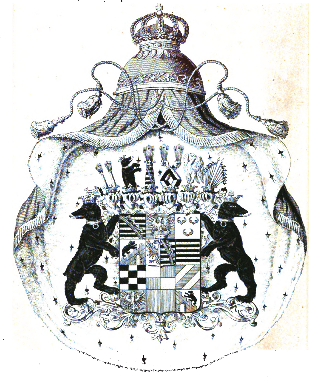 Coat of arms of Anhalt-Bernburg